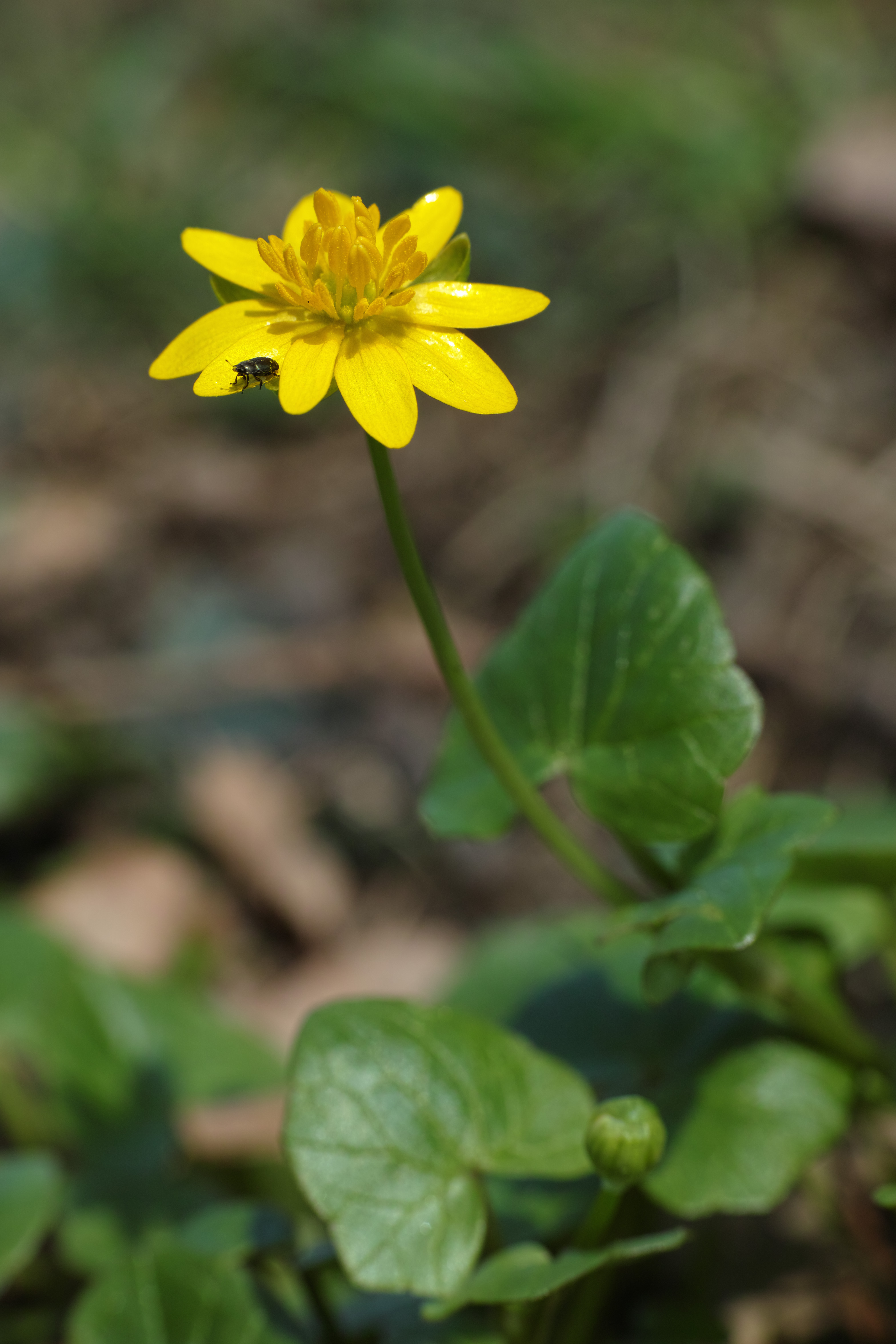 Ficaria verna, natural reserve Vrbenské rybníky near České Budějovice, Czech republic